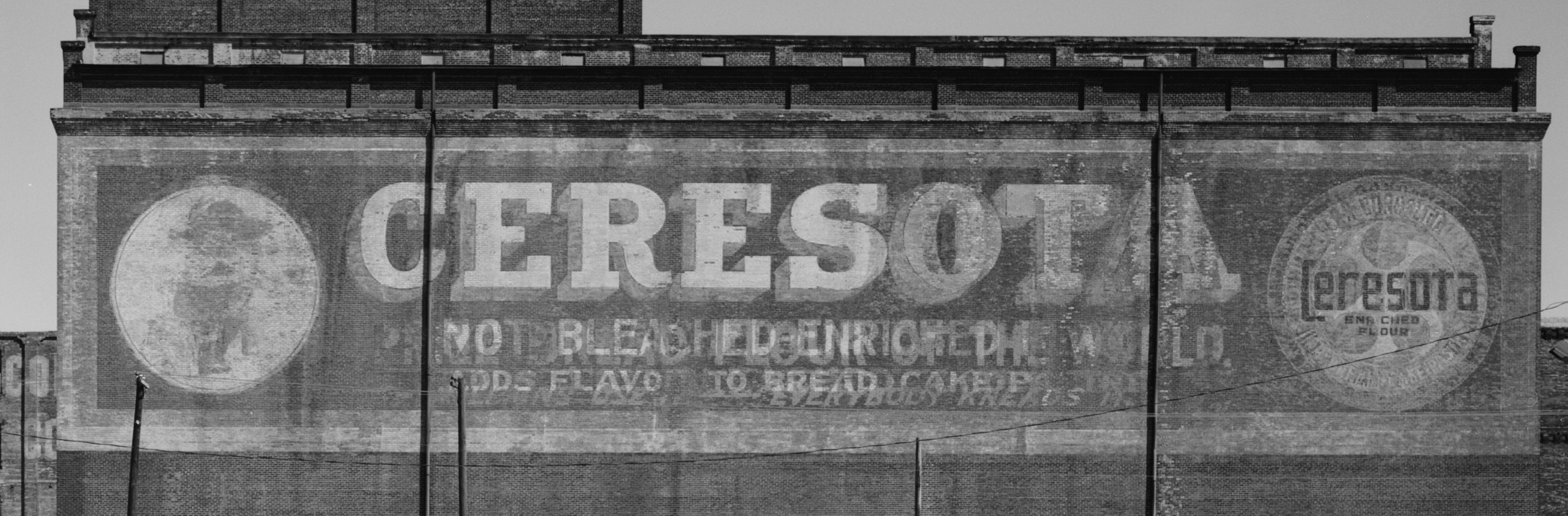 Northwestern Consolidated Milling Company Elevator A now known as the Ceresota Building, 119 Fifth Avenue South, Minneapolis, Minnesota, Hennepin County. Image is cropped.